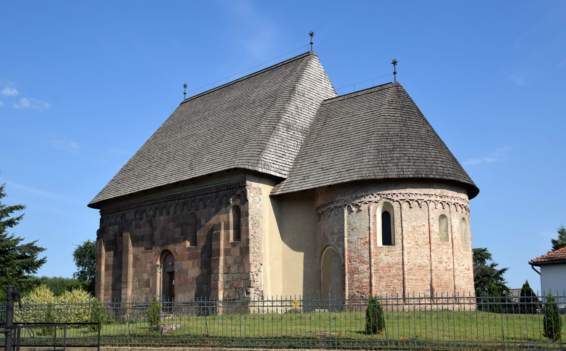 Karcsa, church northeast